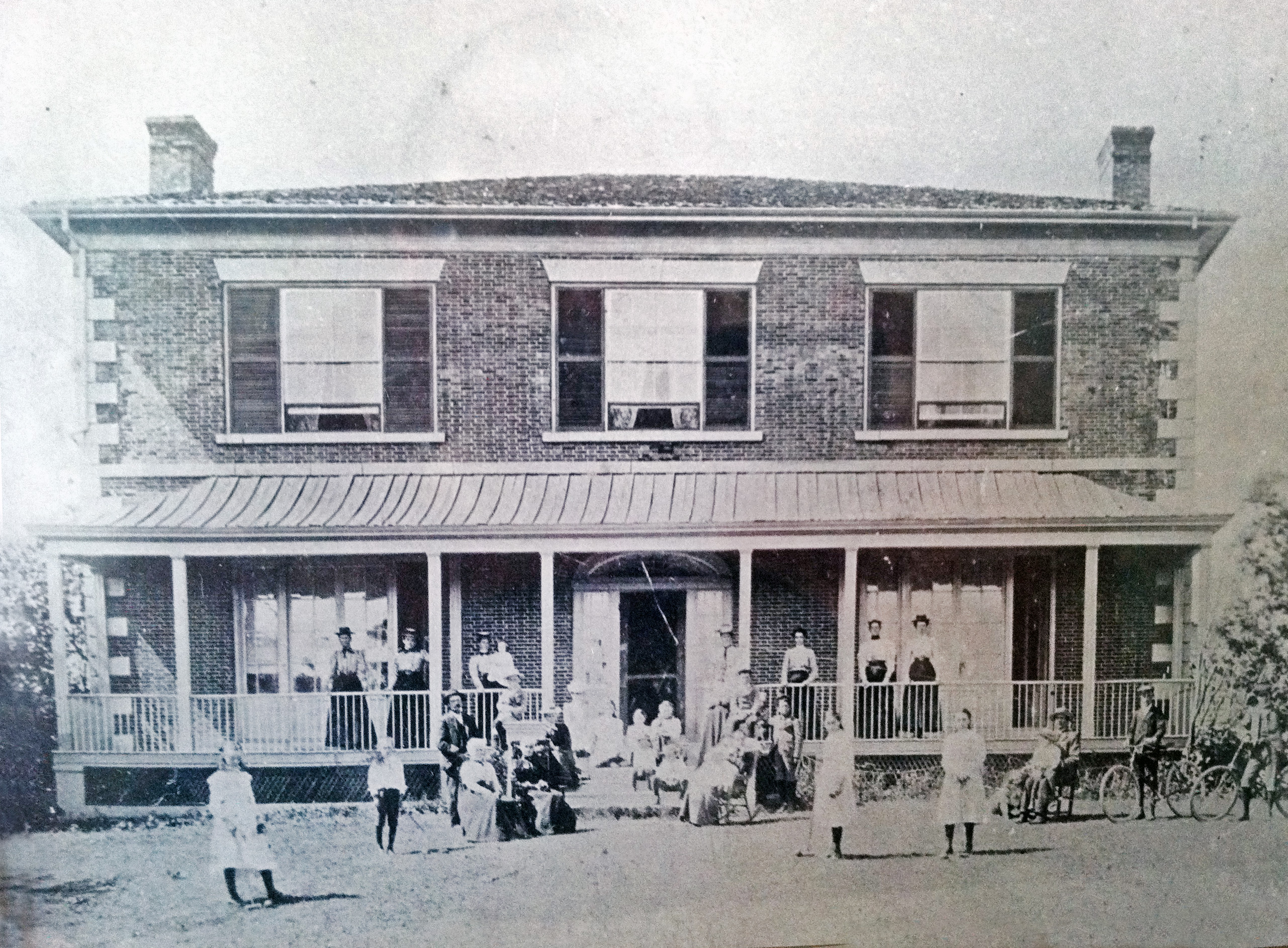 Tara Hall, Wellington, Canada photographed circa 1870.